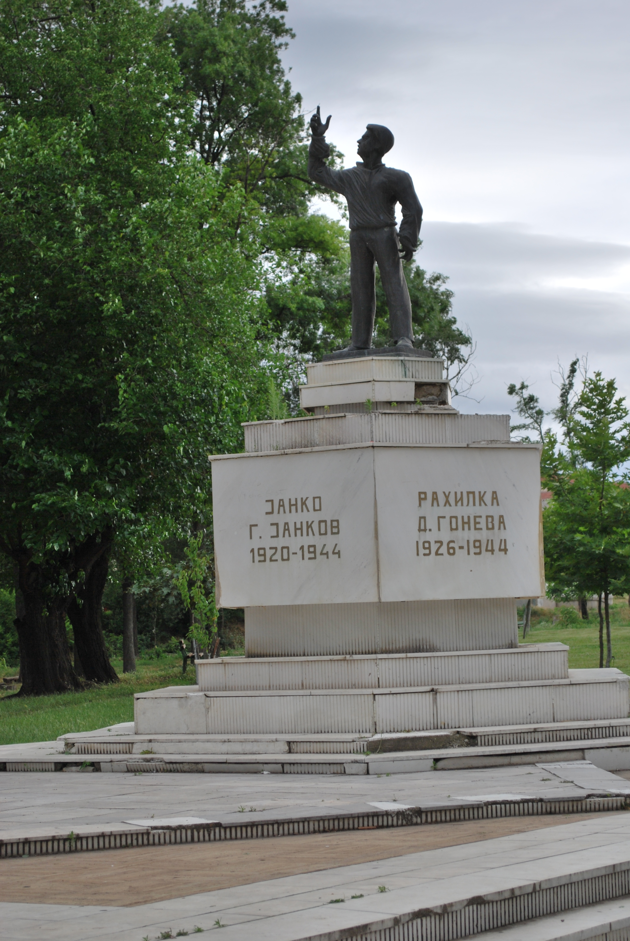 ISveti Nikole, Macedonia